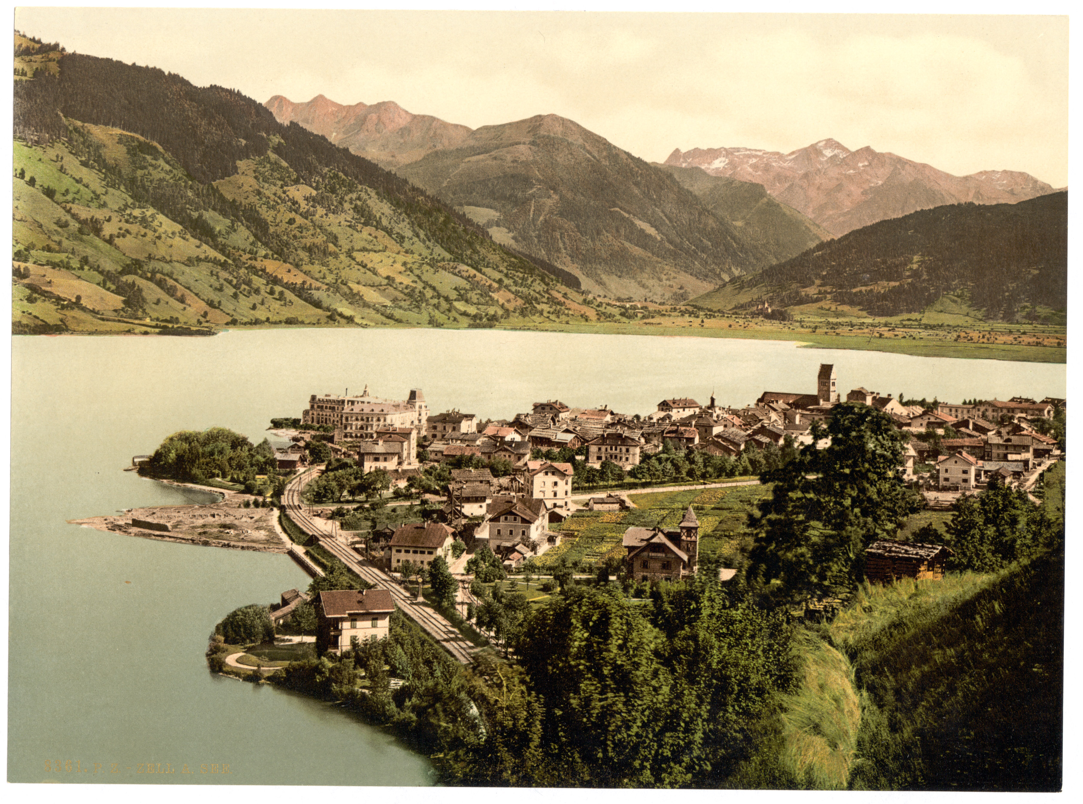 Zell am See on postcard, about 1900